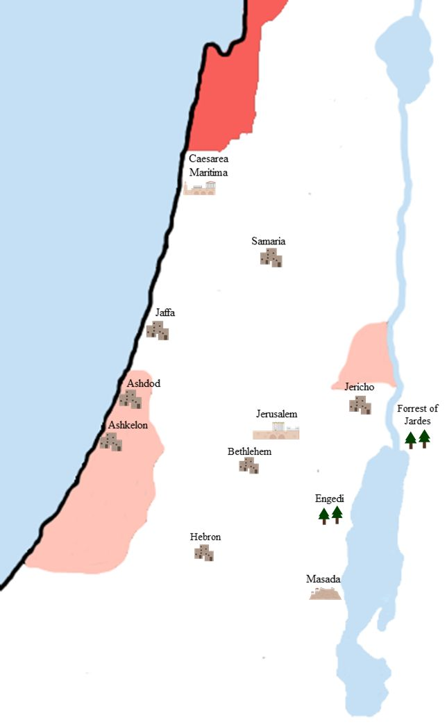 Map of the territory of Salome, sister of Herod the Great, given to her following her brother's death and the partition of his kingdom in 4 BCE.